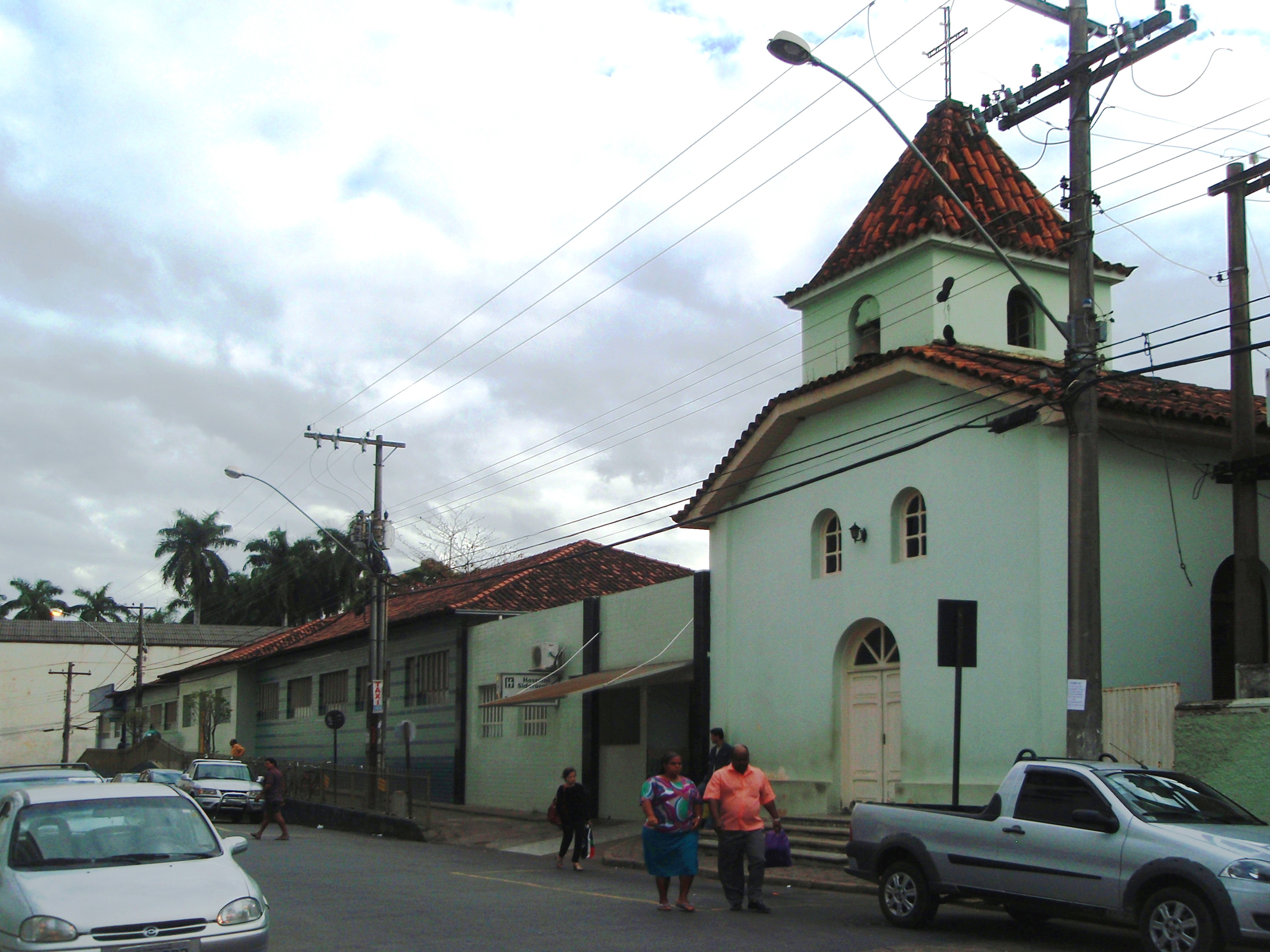 The Our Lady Help of Christians chapel and the Siderúrgica Hospital, in Coronel Fabriciano, Minas Gerais, Brazil.